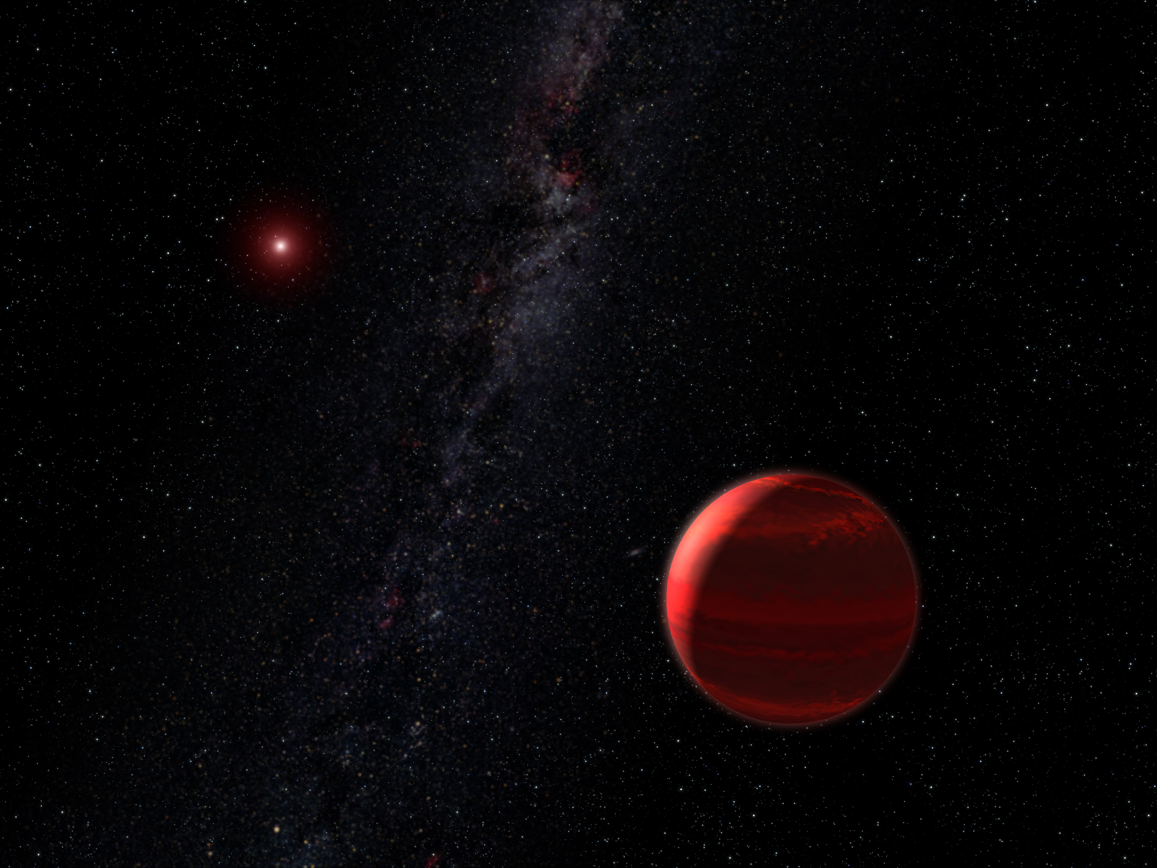 Artist's conception of a the red dwarf star CHRX 73 A and its companion object CHRX 73 B. The companion object is around 12 Jupiter masses, and may either be a planet, a failed star or a brown dwarf